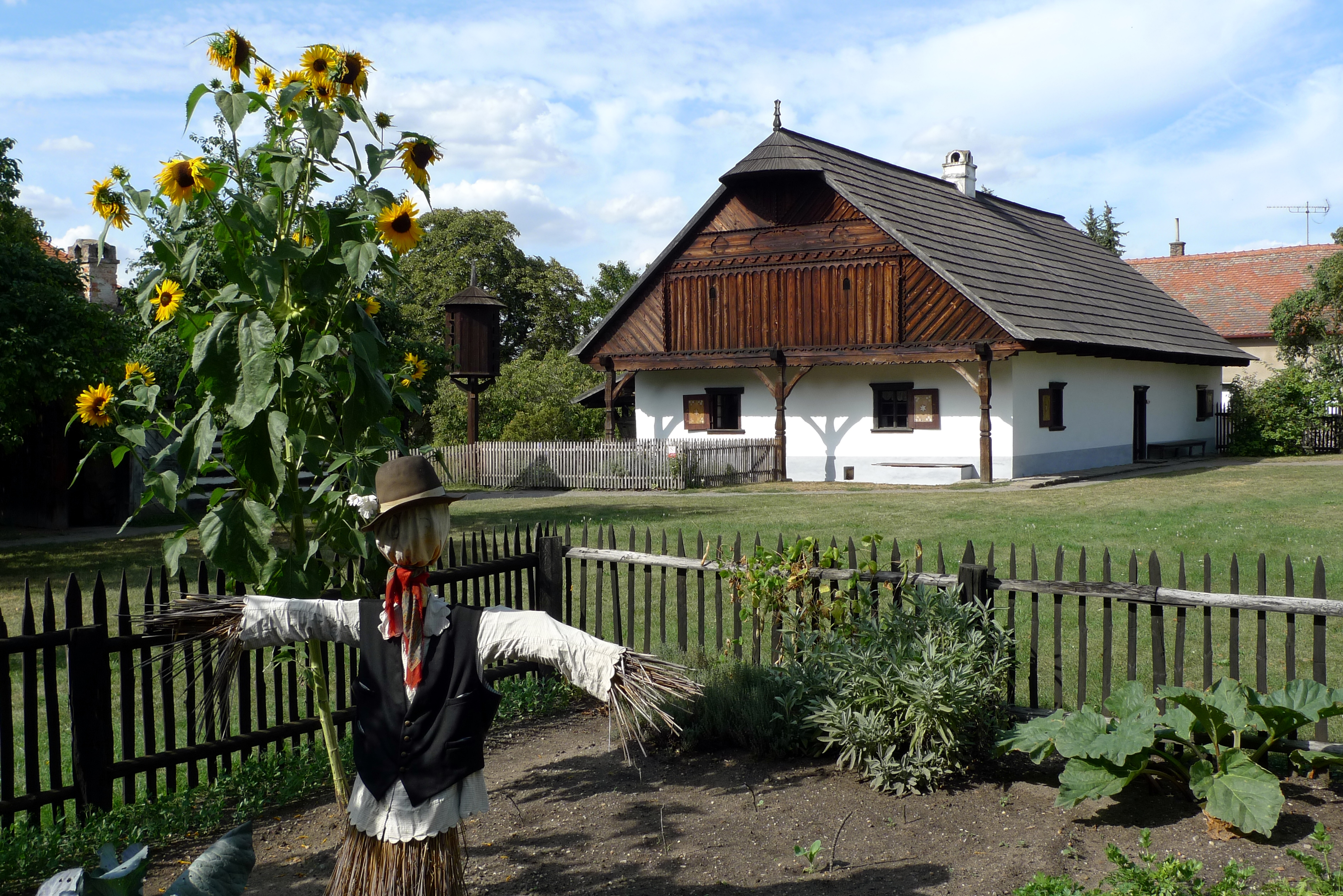 Open air museum in Přerov nad Labem, Czech Republic - Old Bohemian House